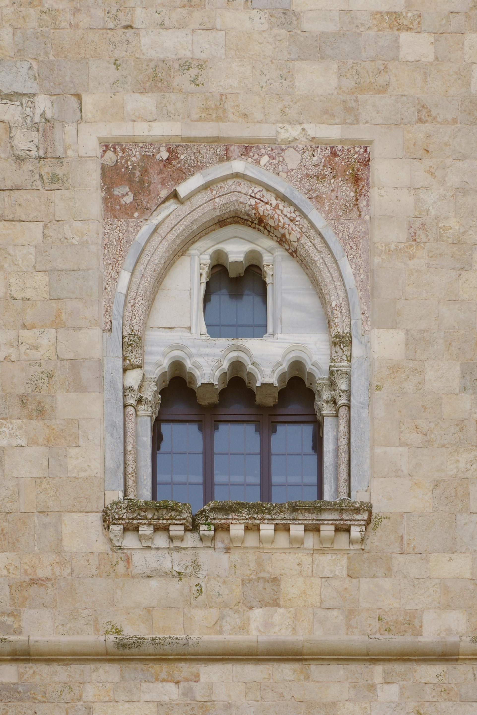 Italy, Castel del Monte